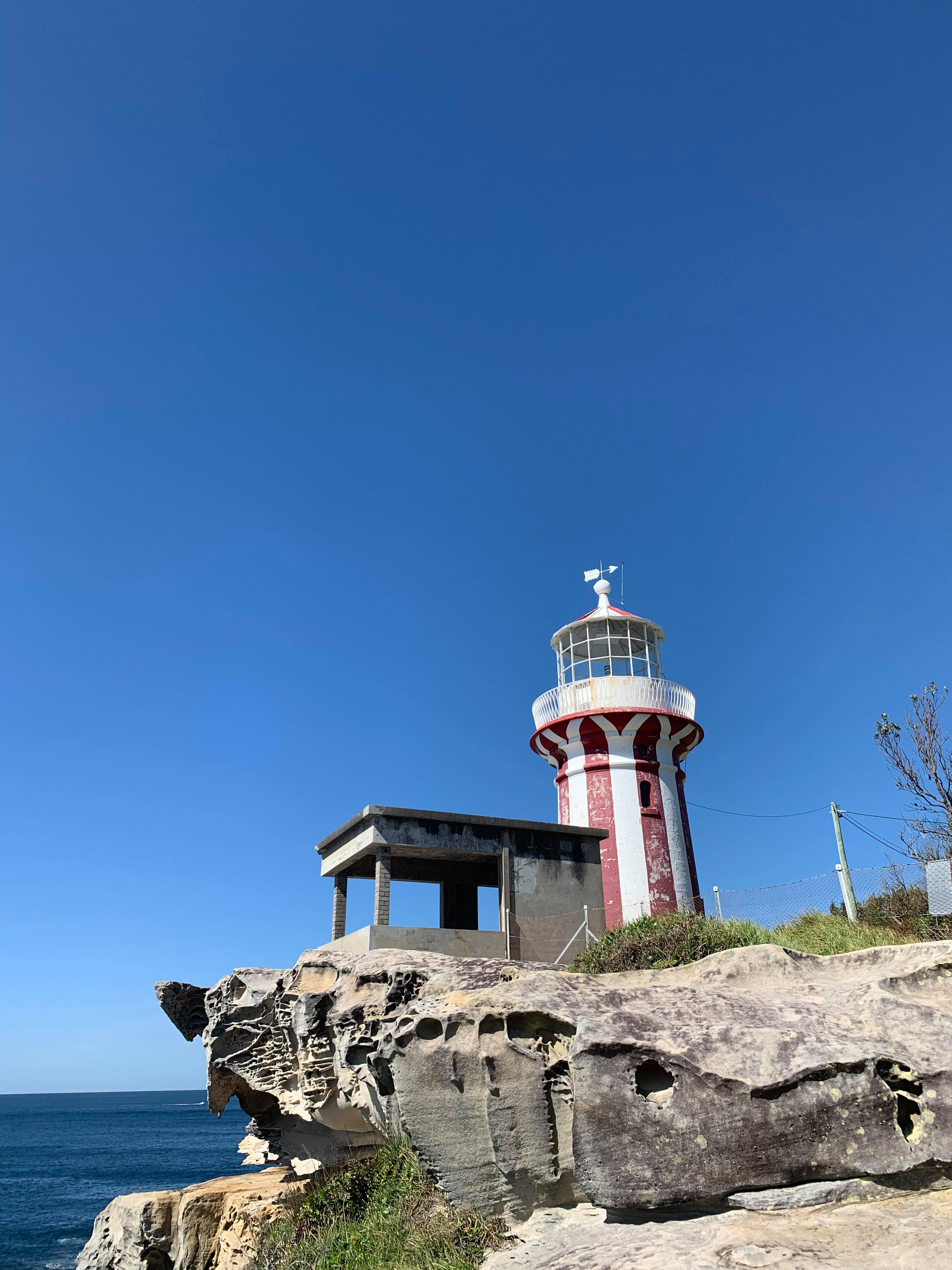 Hornby Lighthouse by cliff in Watsons Bay